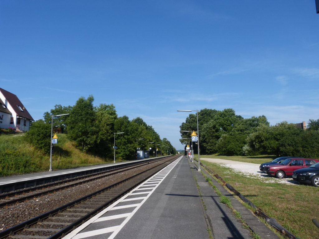 Railwaystation of Reichenschwand, Germany